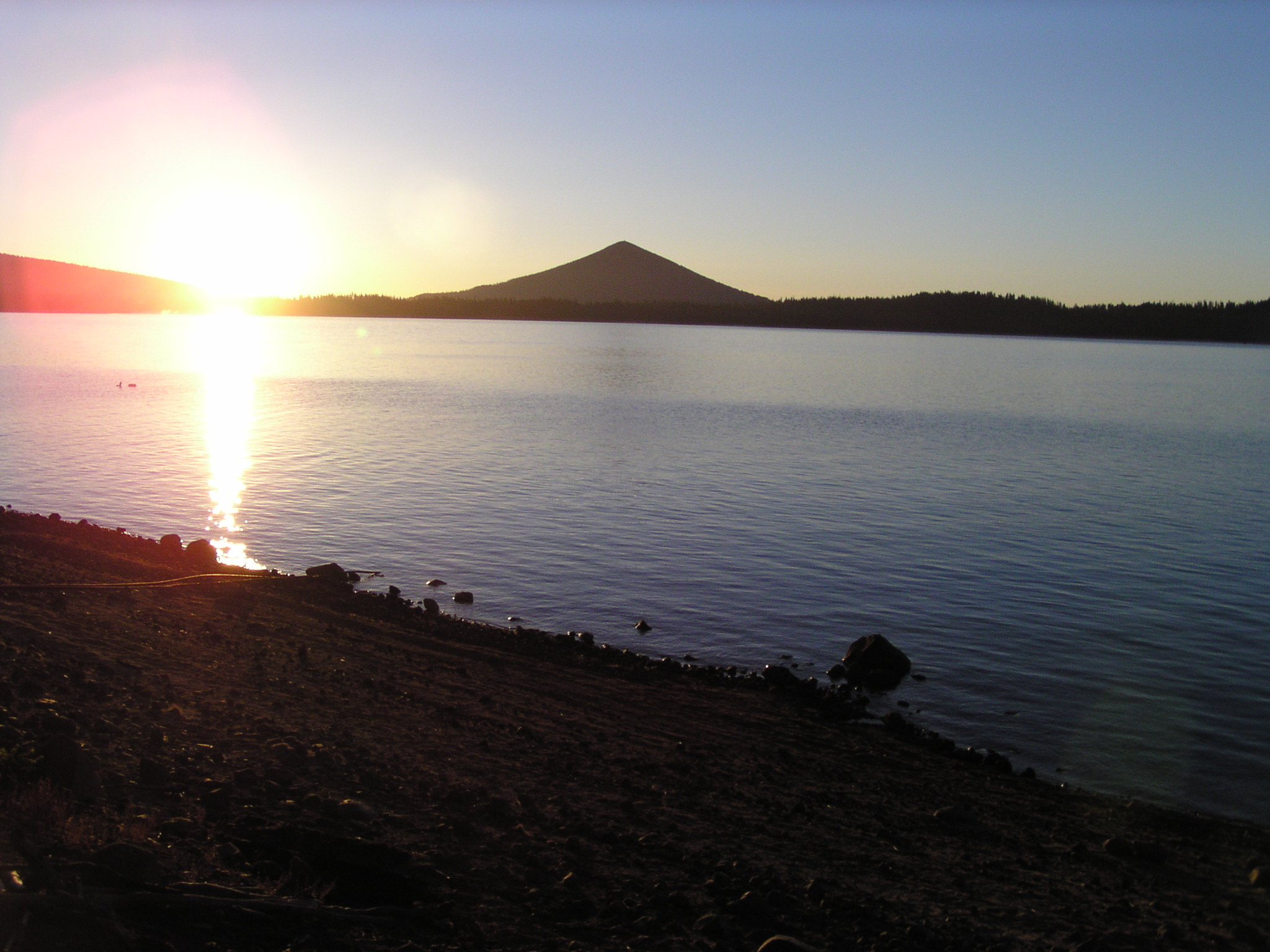 This is a photo of Crescent Lake at sunrise while looking at Odell Butte.